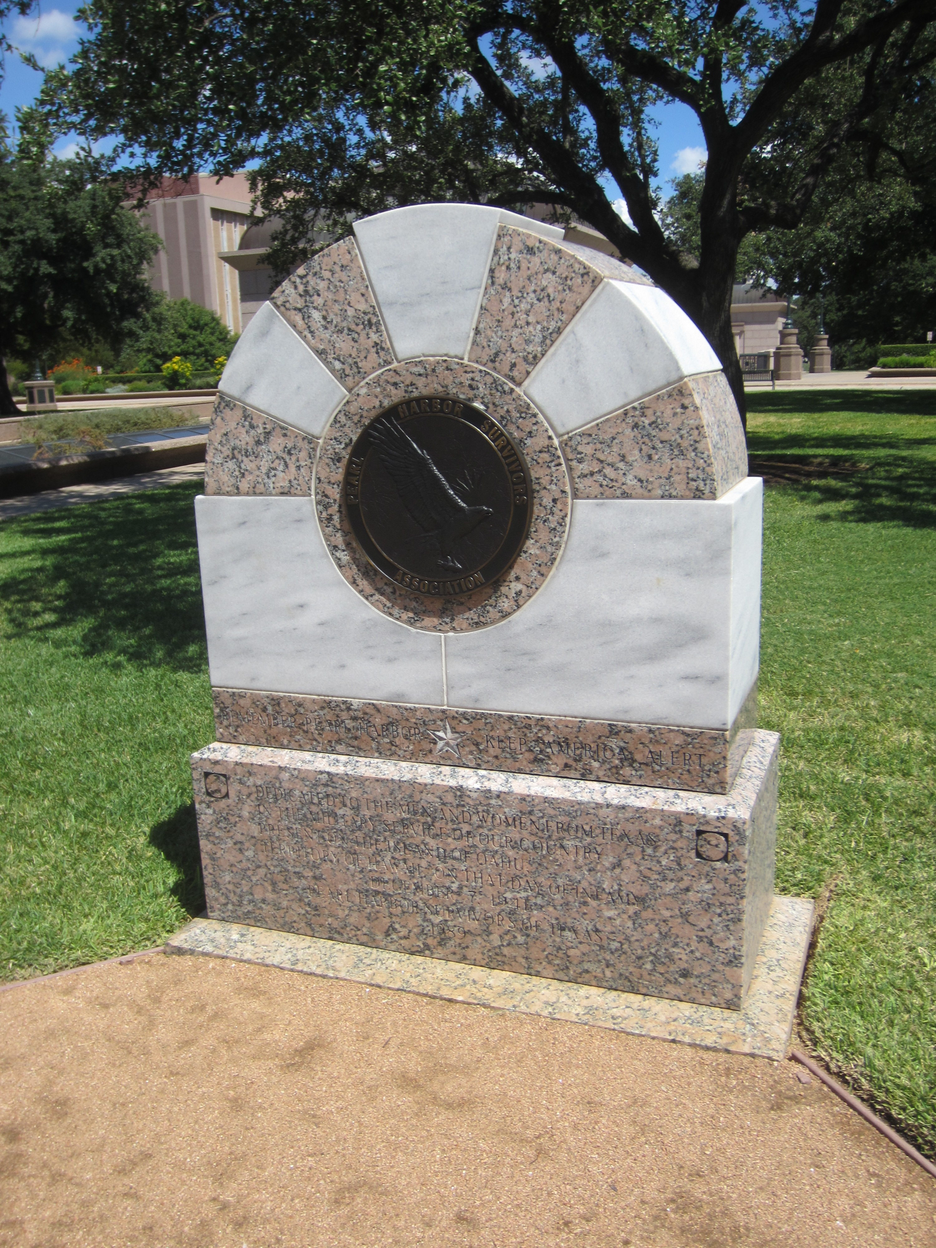 Austin, Texas (August 30, 2018)